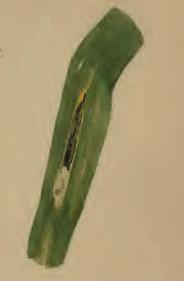 Stainton’s Natural History of the Tineina (1855–1873): Cosmopterix lienigiella mined leaf blade of Phragmites